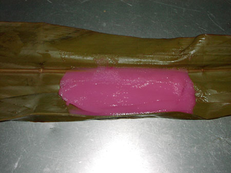 Muuchii